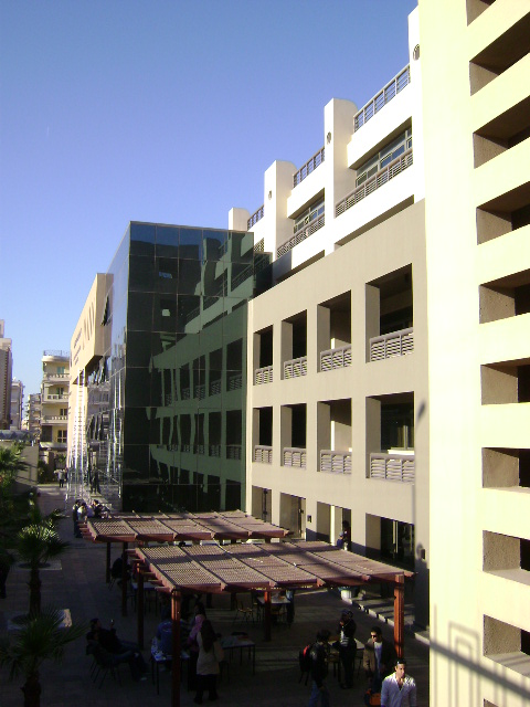 Taken from The Arab Academy, Sheraton Heliopolis, Nozha Town The Glass Block is an additive form for the building